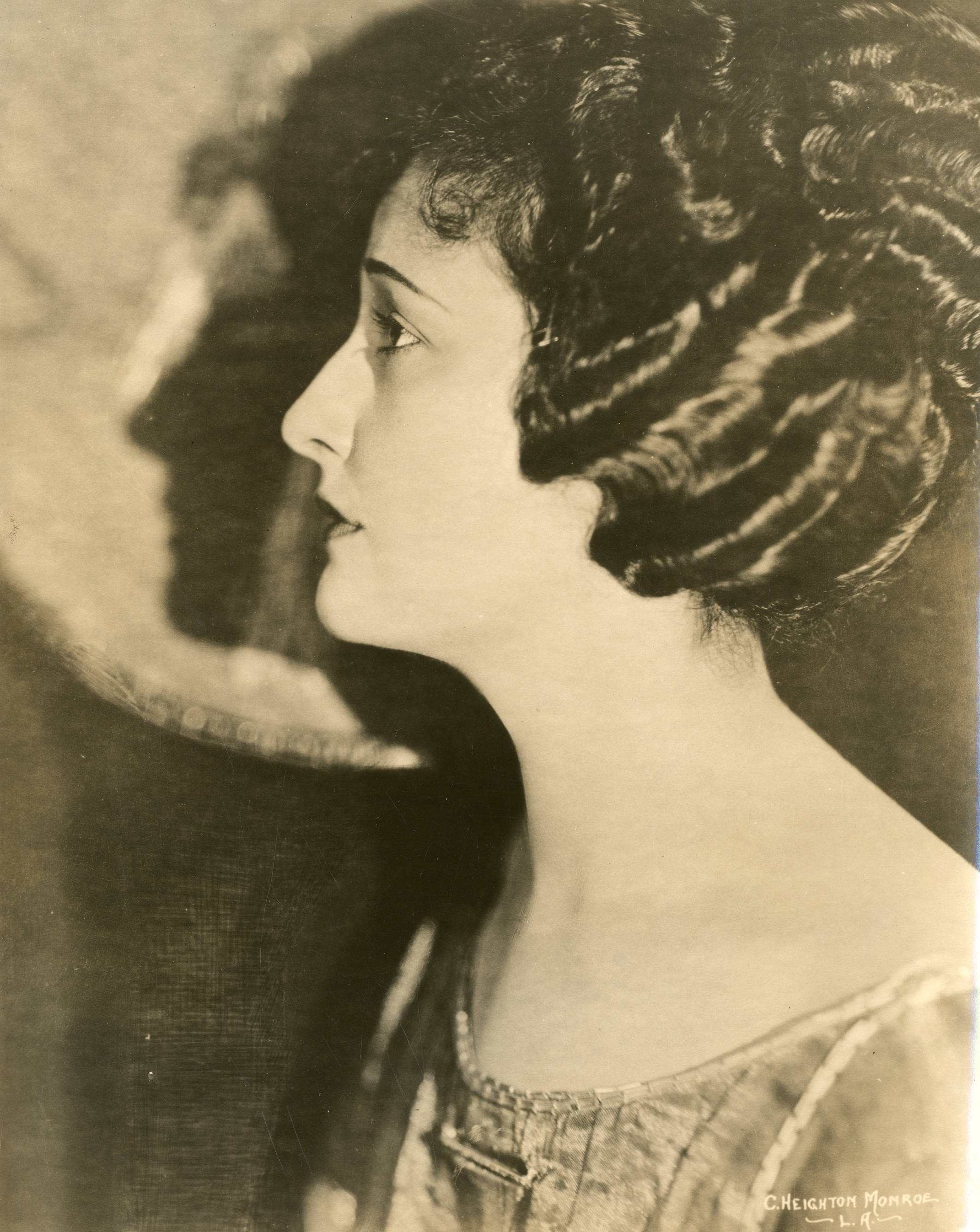 Rosemary Theby, silent film actress Subjects: actresses